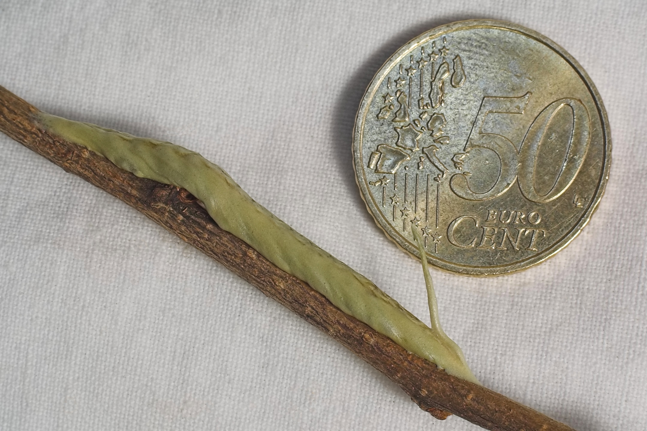 Phyllocrania paradoxa Ootheca